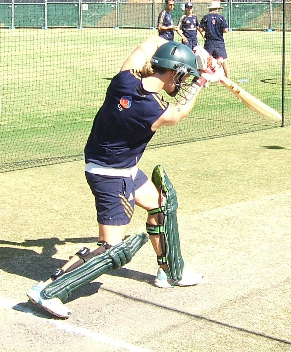 Named person engaging in named action at Adelaide Oval nets/training ground